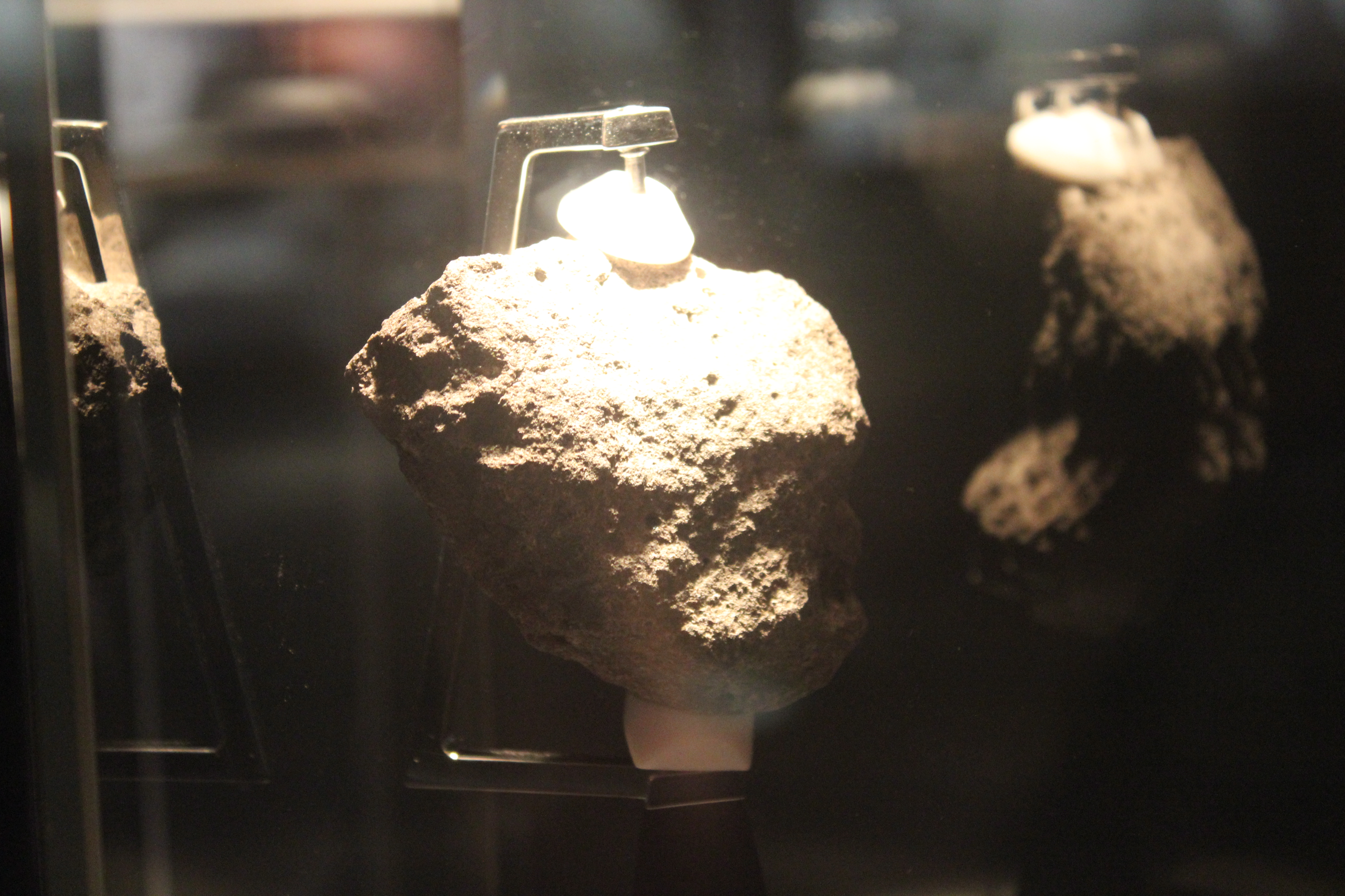 Moon rock from apollo 12 mission at Cleveland Museum of Natural History